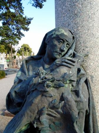 The sculpture decorating the tomb of Eduard Le Mounier.in the Saint-Michel cemetery in St Brieuc in Brittany, France. Le Mounier was a French pilot killed in action in 1918. This sculpture is the work of Jean Boucher (1870-1918). The tomb comprises a marble column surmounted by a bronze bust of Le Mounier. By the base of the column stands the sculpture shown in this photograph. The sculpture features an allegory for France in the form of a veiled and grieving woman who holds in her arms a wounded bird symbolizing the dead aviator